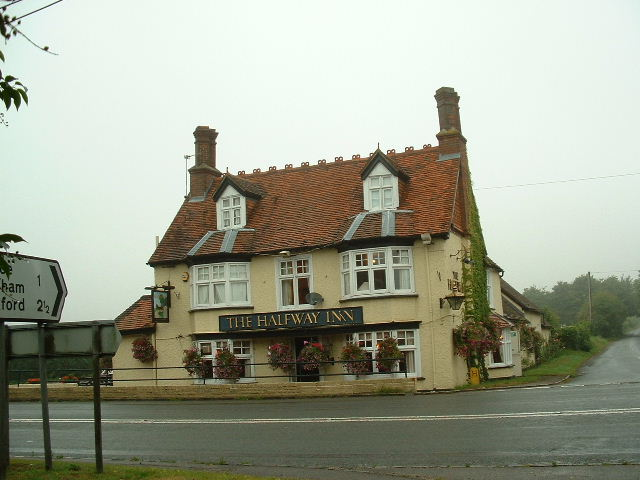 Halfway Inn. Near crossroads at halfway